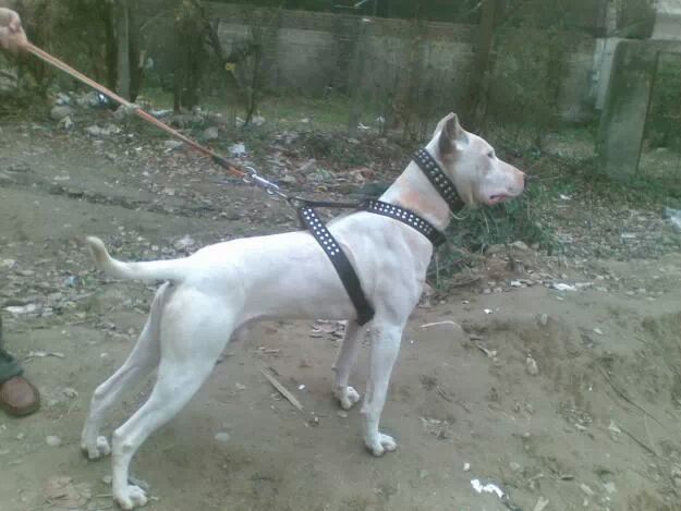 Gull terr in india owned by Sahil thakur